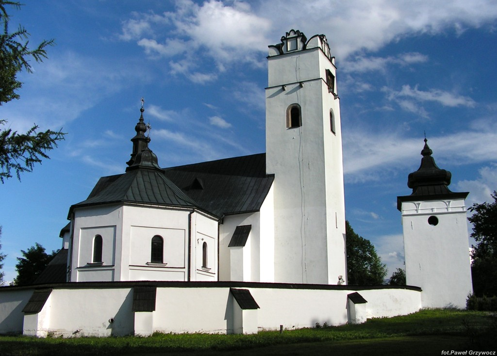 The church in Frydman, Poland.